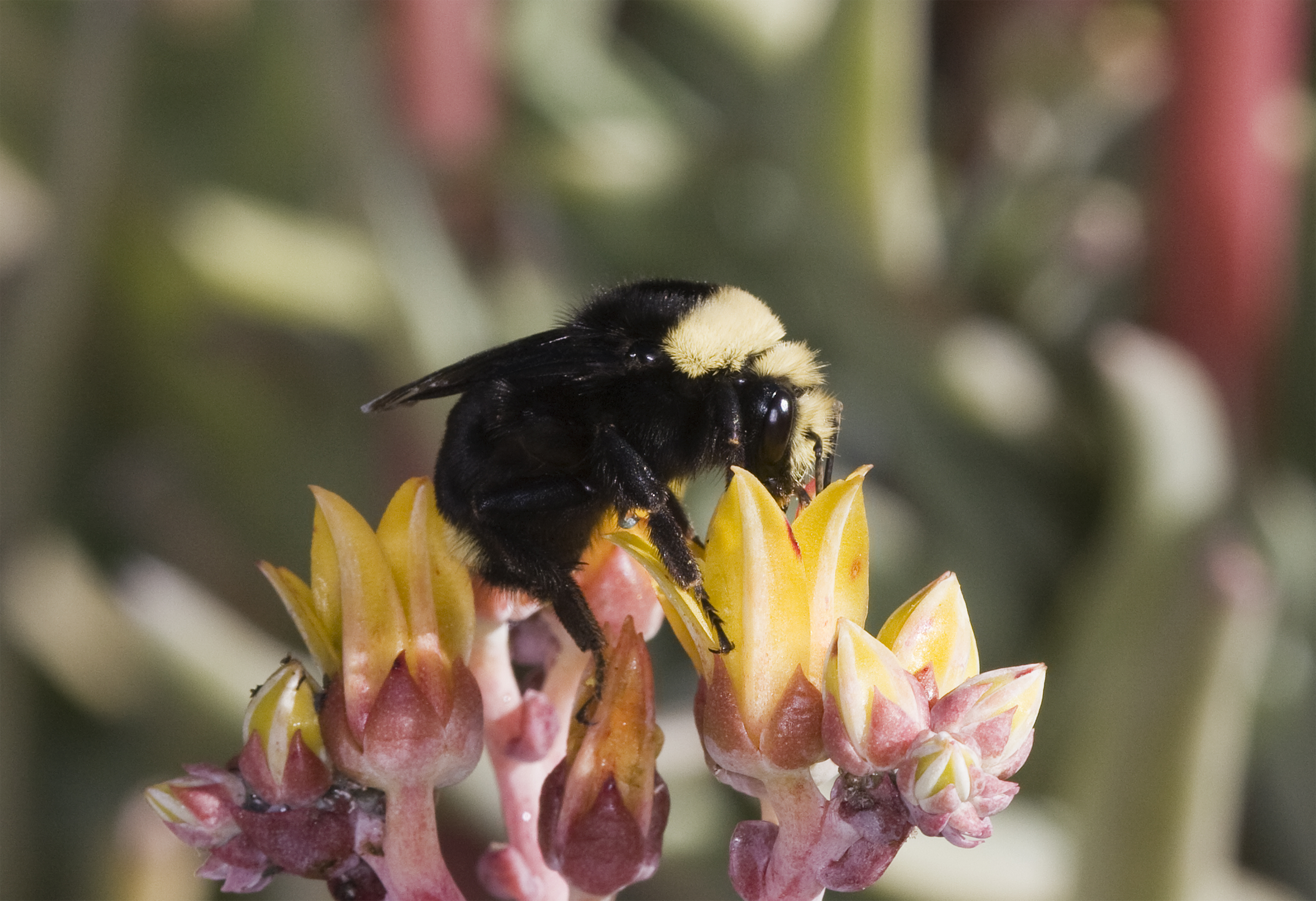 Yellow-Faced Bumble Bee (Bombus vosnesenskii), on a flowering Dudleya lanceolata plant. Taken at the San Luis Obispo Botanical Garden in El Chorro Regional County Park. 40D w/180L Macro and Dual Head MT-24EX Flash.